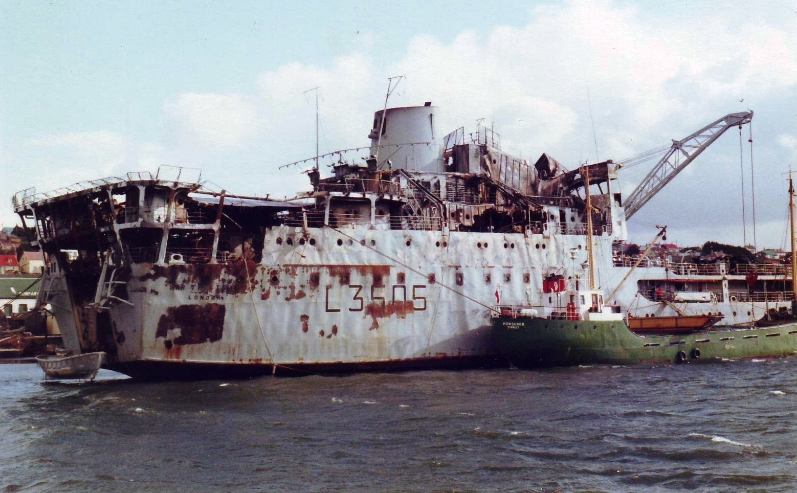 RFA Sir Tristram - Port Stanley 1983